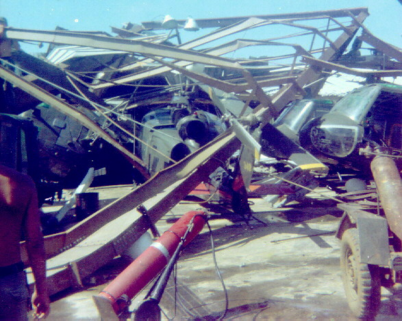 Damage at an airbase in Chu Lai, Vietnam in the wake of Typhoon Hester